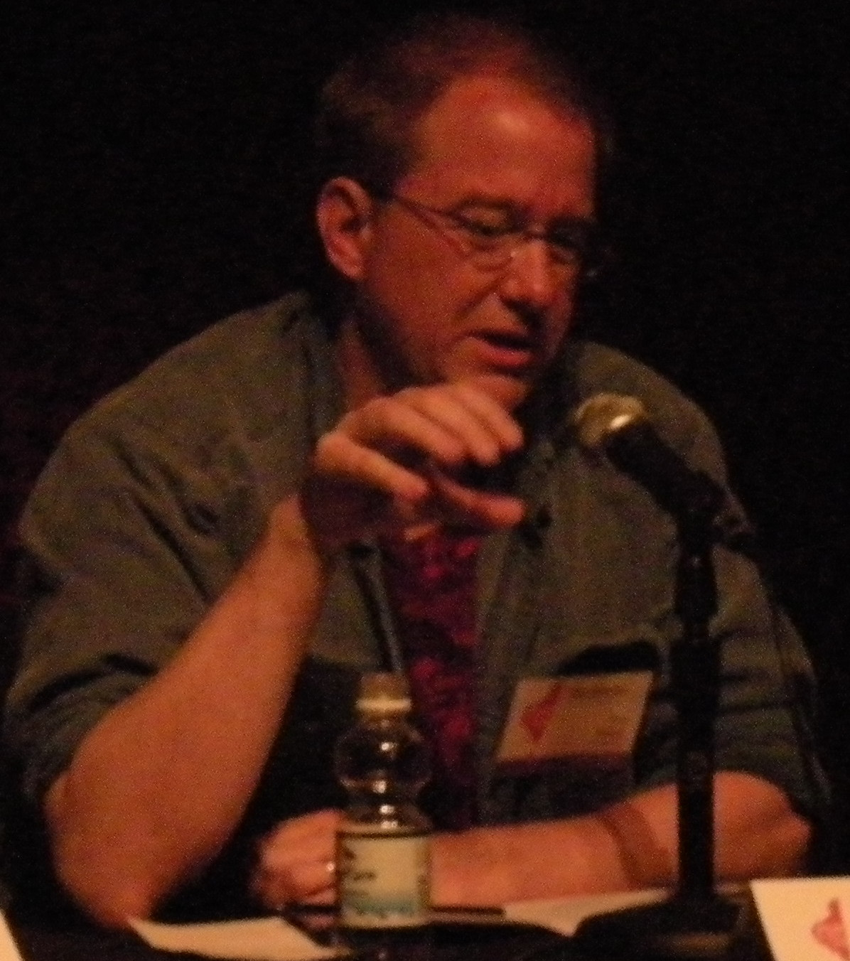 Tim Quirk (vice president for music programming for Rhapsody) on the panel "Continuum of Protest" at 2008 Pop Conference, Experience Music Project, Seattle, Washington. Quirk was formerly lyricist and vocalist of the band Too Much Joy.